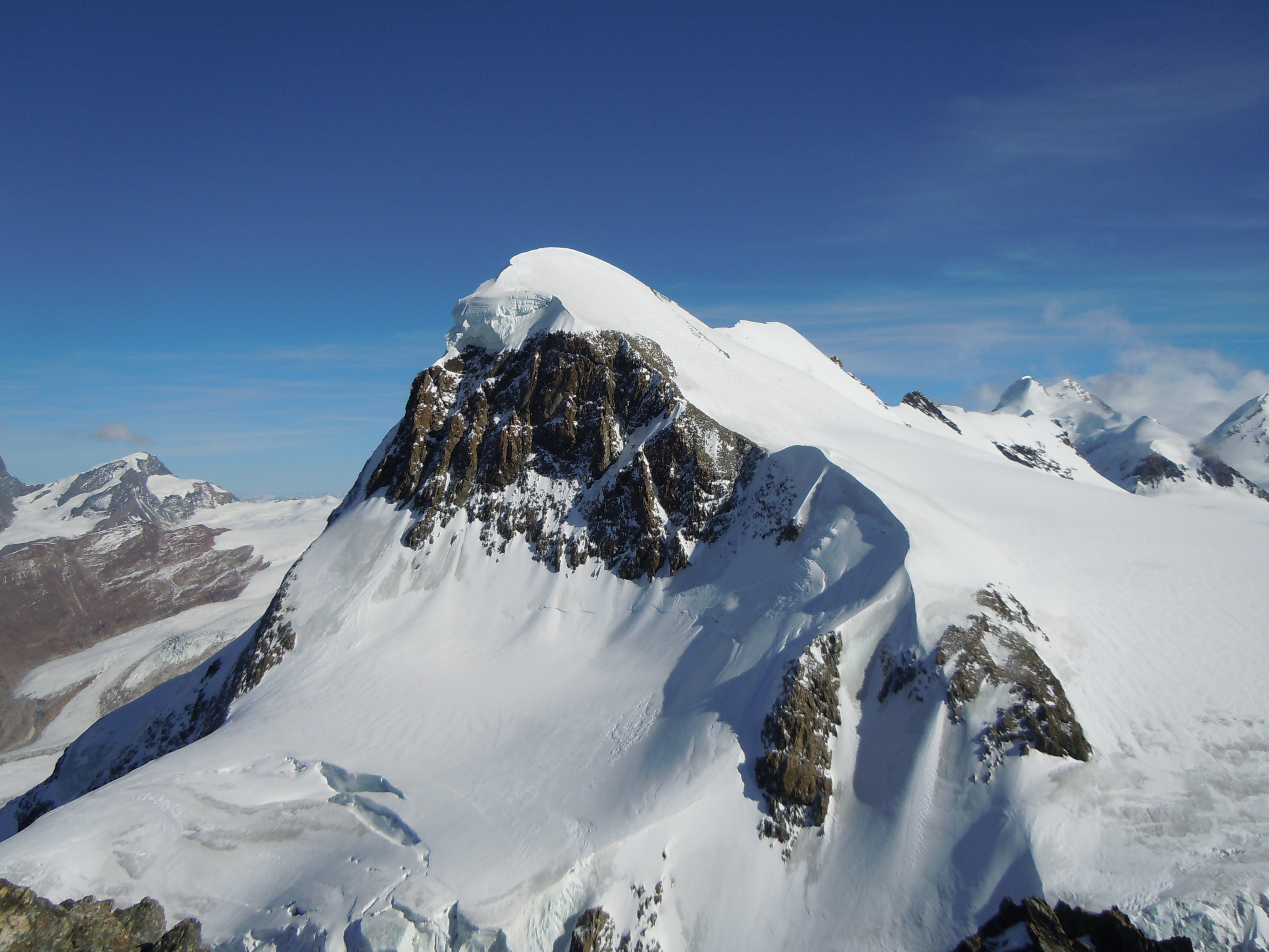 This is a photo of a monument which is part of cultural heritage of Italy.